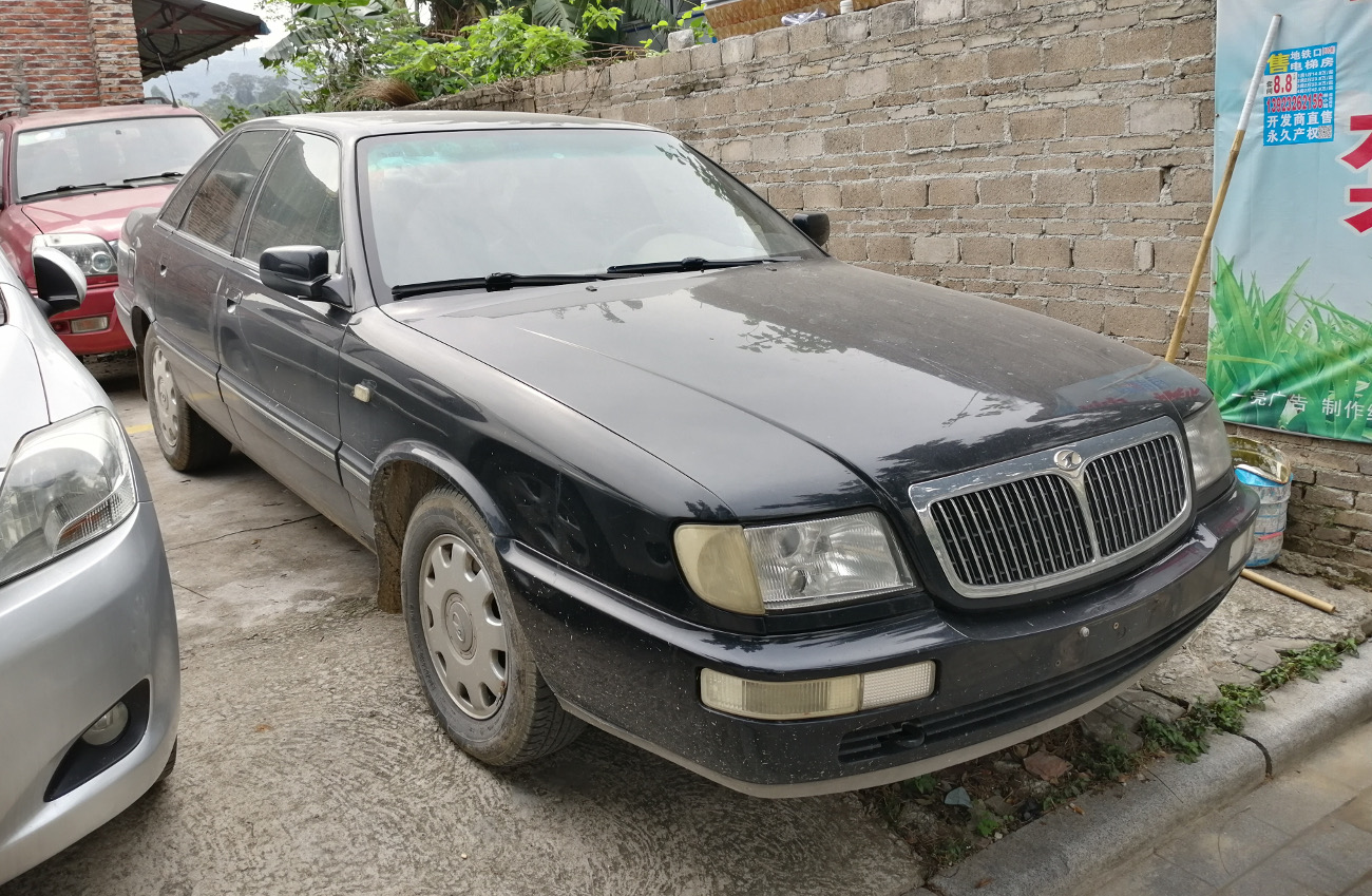 Hongqi CA7202E3 photographed in Guangzhou, Guangdong province, China.